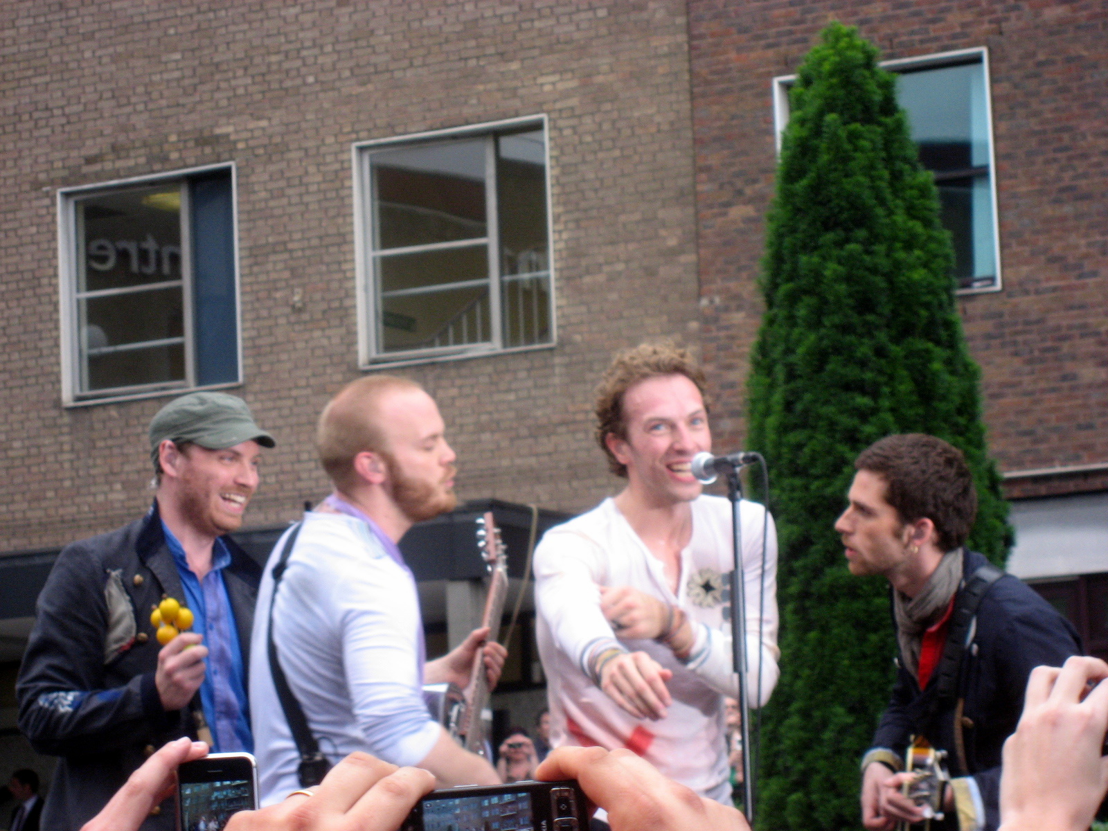 Coldplay: Jonny Buckland, Will Champion, Chris Martin and Guy Berryman